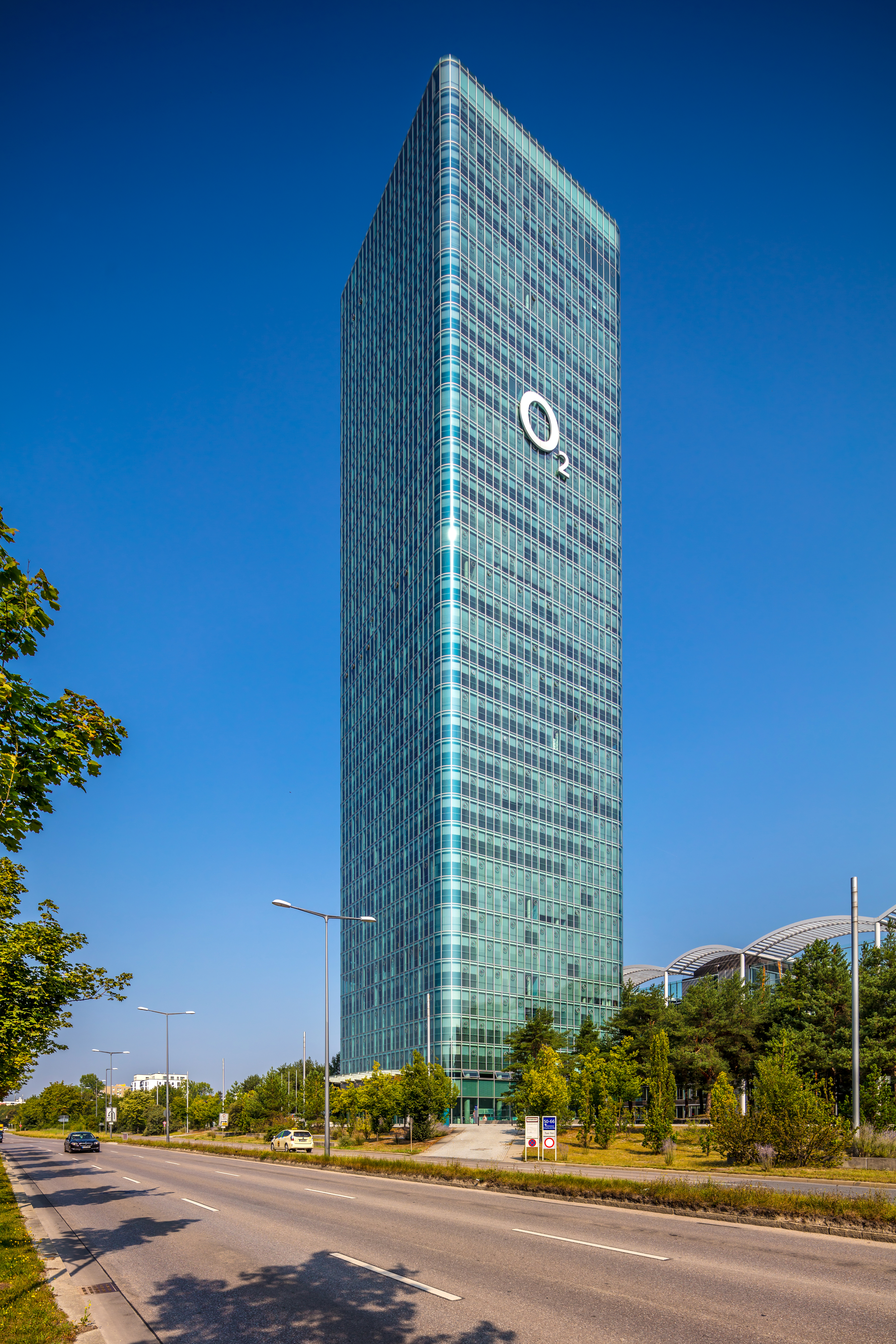 Uptown Building (ingenhoven architects), Munich (08/2018) - Human picture: (1 body / 1 lens / 1 human = 1 picture ) 0% AI ... ;- ) ... Following vandalization (Rotterdam) of my work, final stop of this series on European cities. My work not being respected, I definitively stop my publications in Wikimedia Commons (including definition and quality updates). Final publication in Wikimedia Commons